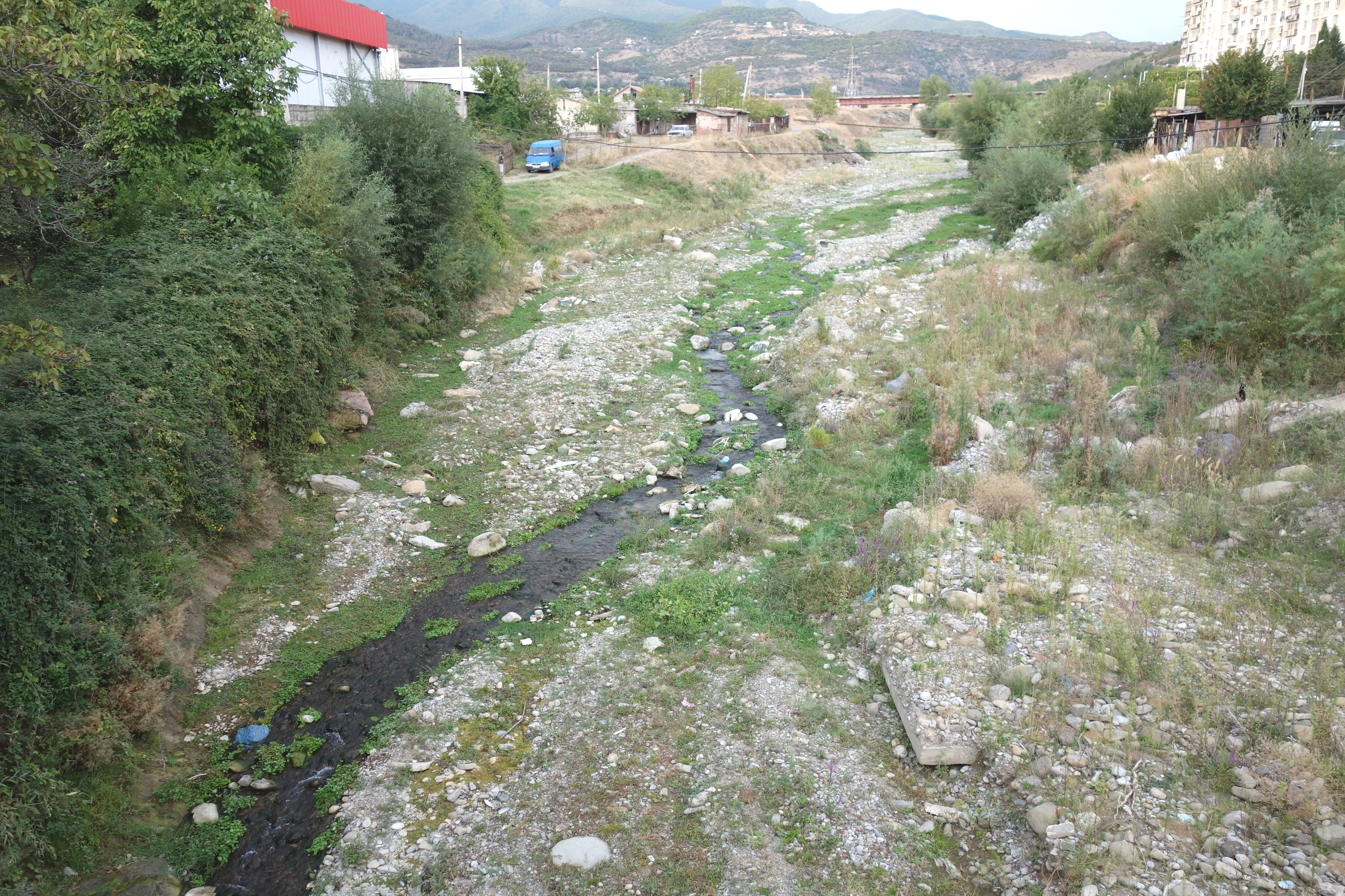 Gldaniskhevi river, Gldanula, Tbilisi, Georgia (view from D. Aghmashenebeli St.)